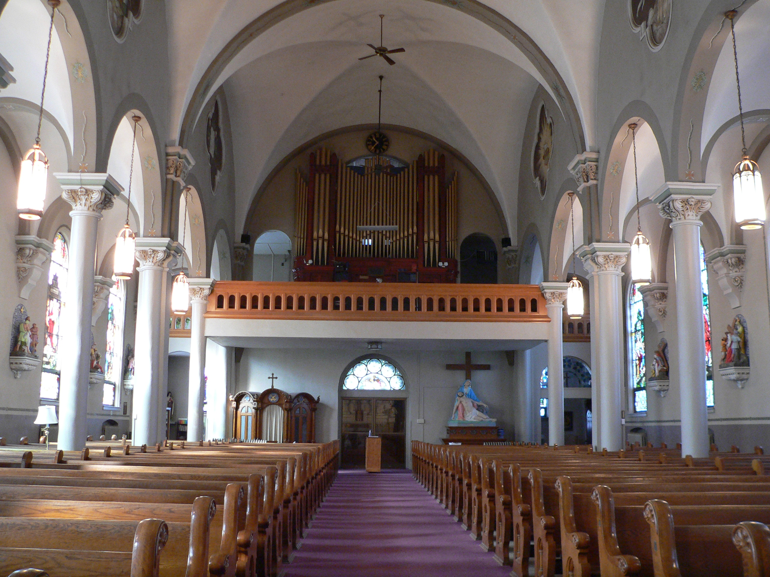 Interior of St. Leonard's Catholic Church in Madison, Nebraska; seen from the front. The church was designed in Romanesque Revival style by architect Jacob M. Nachtigall, and built in 1913. With its rectory and a garage, it is listed in the National Register of Historic Places.